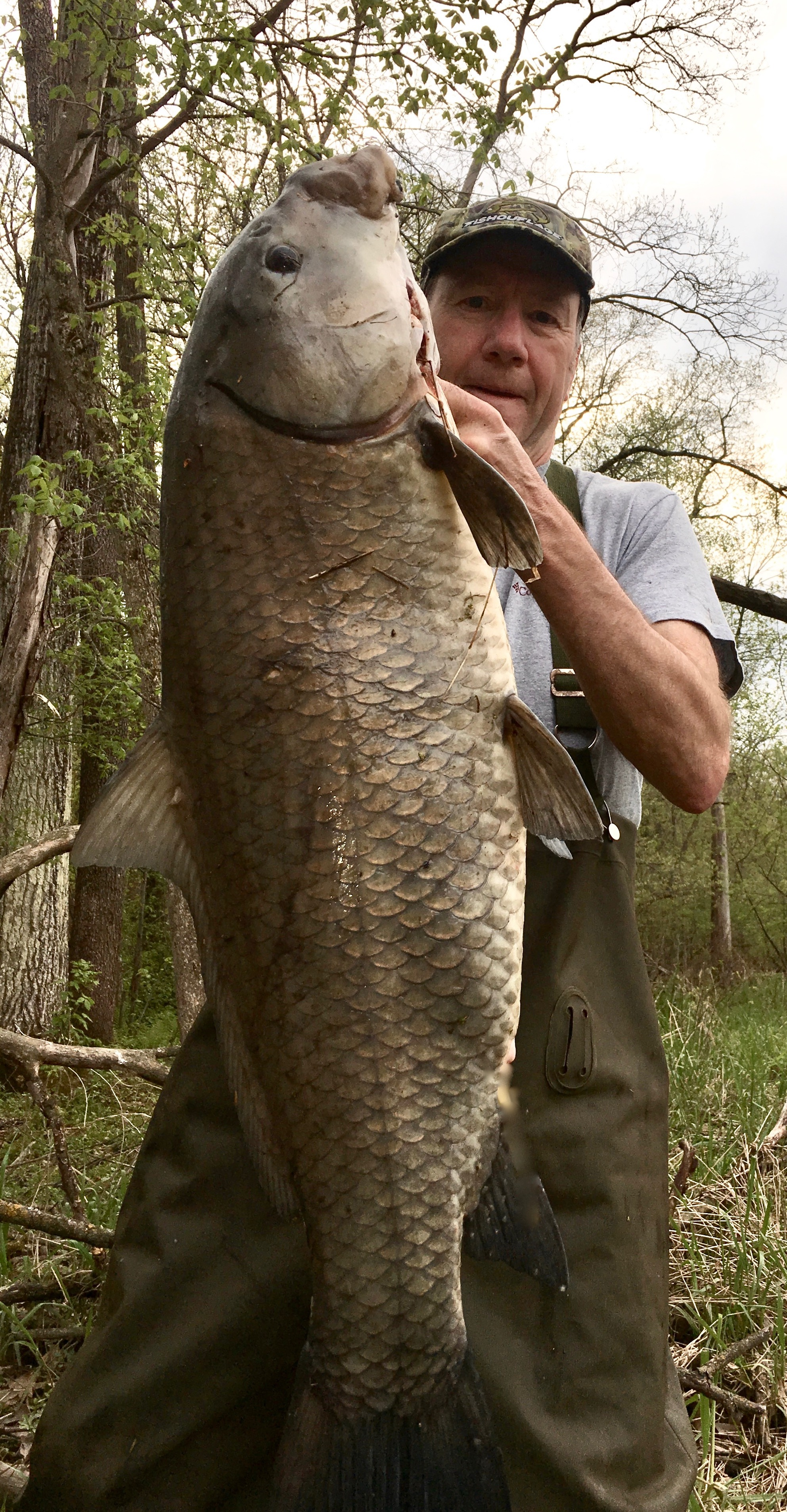 Bowfishing buffalo fish